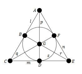 Fano plane